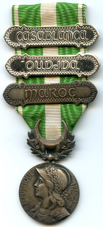 Morocco medal (France) Obverse